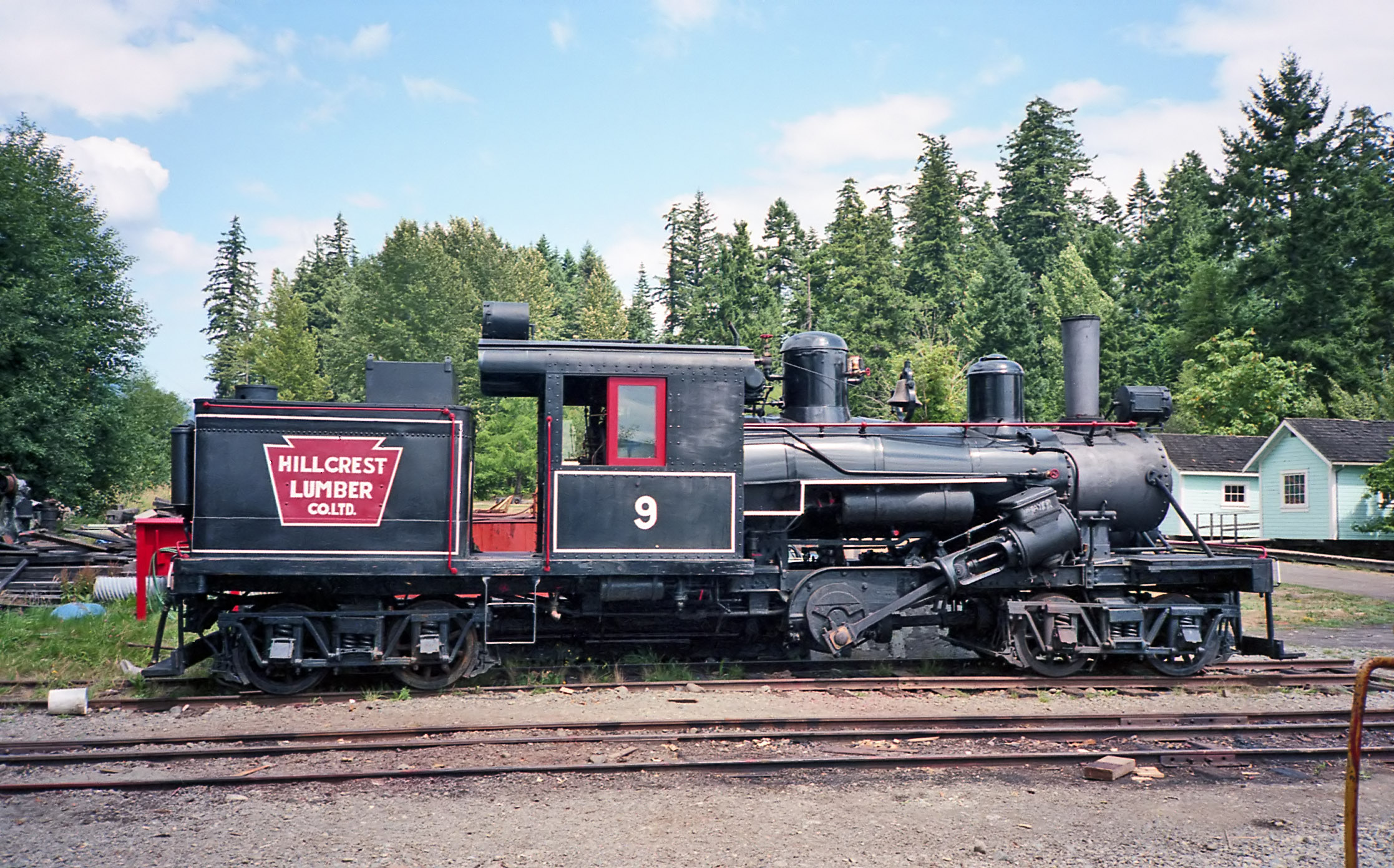 Hillcrest Lumber Company steam locomotive #9 (Class B Climax) at BC Forest Museum (now BC Forest Discovery Centre) in Duncan, British Columbia (16-Jul-1995)